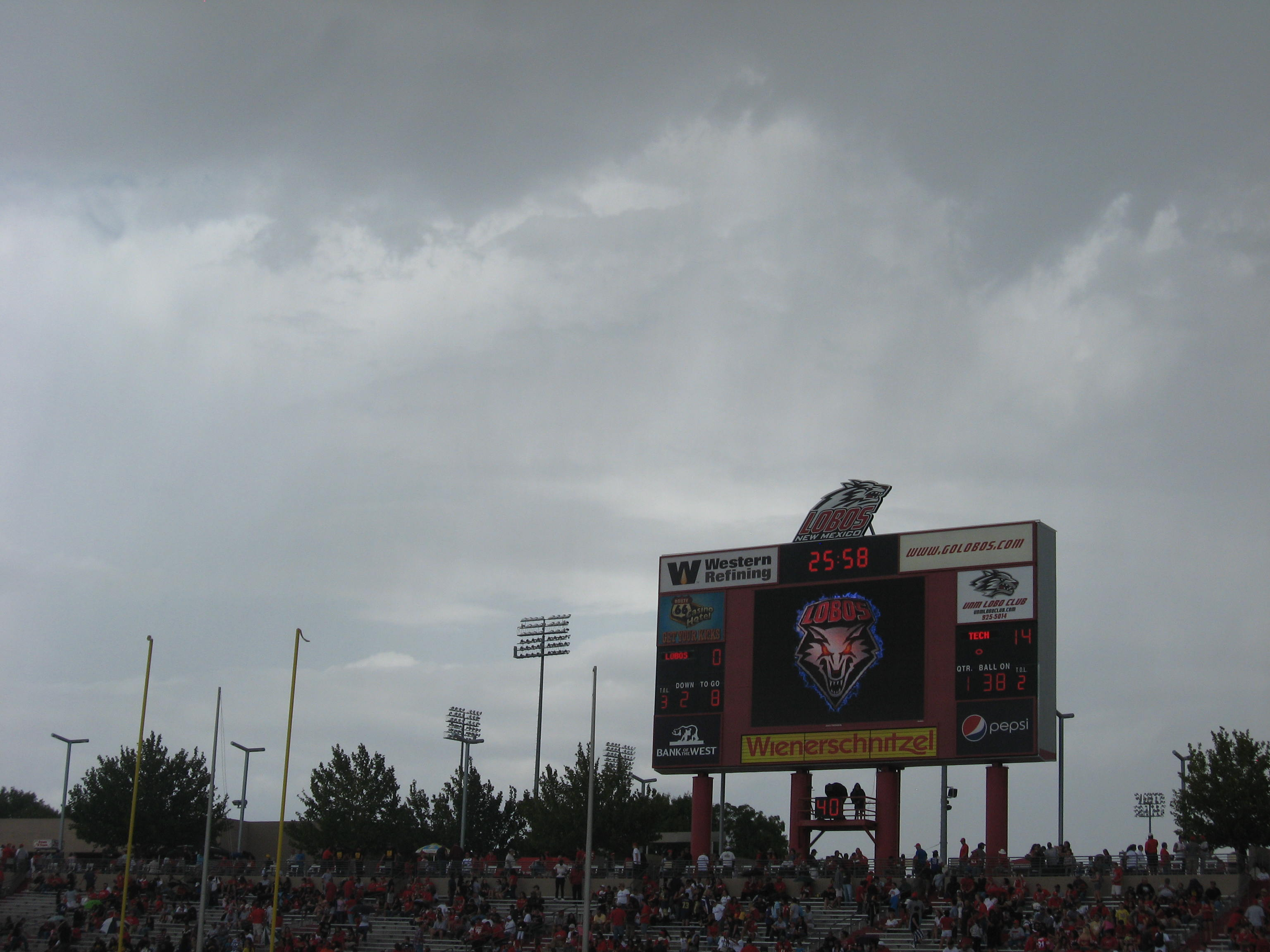 Clouds and scoreboard during first lightning delay, Texas Tech at New Mexico in 2011